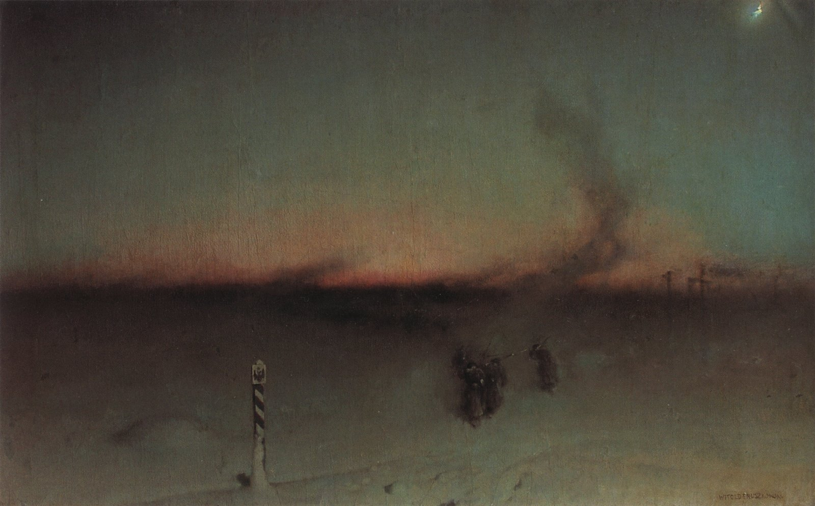 On exile